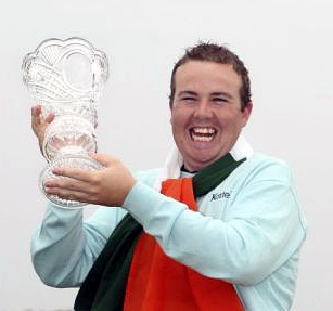 Shane Lowry, winner of Irish Open 2009